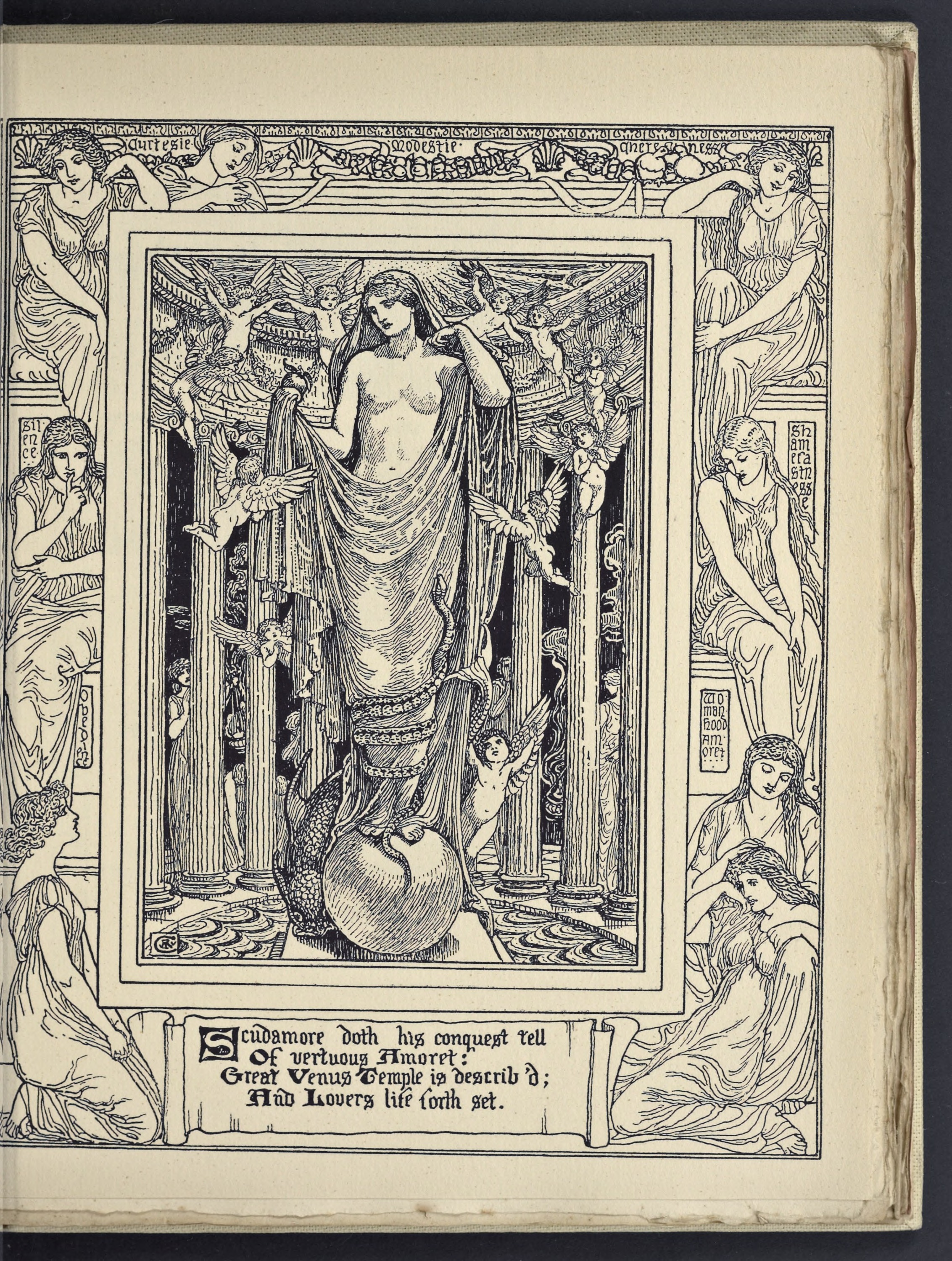 Title: Spenser's Faerie queene. A poem in six books; with the fragment Mutabilite Year: 1895 (1890s) Authors: Spenser, Edmund, 1552?-1599 Wise, Thomas James, 1859-1937 Crane, Walter, 1845-1915 Subjects: Publisher: London, G. Allen Text Appearing Before Image: ' Text Appearing After Image: '